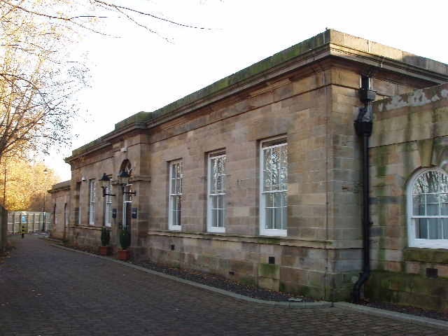 Former Gilesgate Railway Station, Durham (now a hotel) Gilesgate Station was built in the 1840s and was then the main Durham station for trains to London. where David Simpson (author of "North-East England: places, history, people and legends") tells us: "It was the railway entrepreneur George Hudson who built the main line northwards from York from around 1841. Near Durham, his line was what we know today as the Leamside line, and lies to the east of the city. In his time, Hudson's line was called the Newcastle and Durham Junction Railway and became part of the North Eastern Railway in the early 1850s." and "Shincliffe Bank Top and Gilesgate stations were both built in stone by the architect JT Andrews, from York, and both are rather attractive buildings that look more Georgian than Victorian." The building is now a Travelodge hotel, where the photographer stayed when he took the photo.